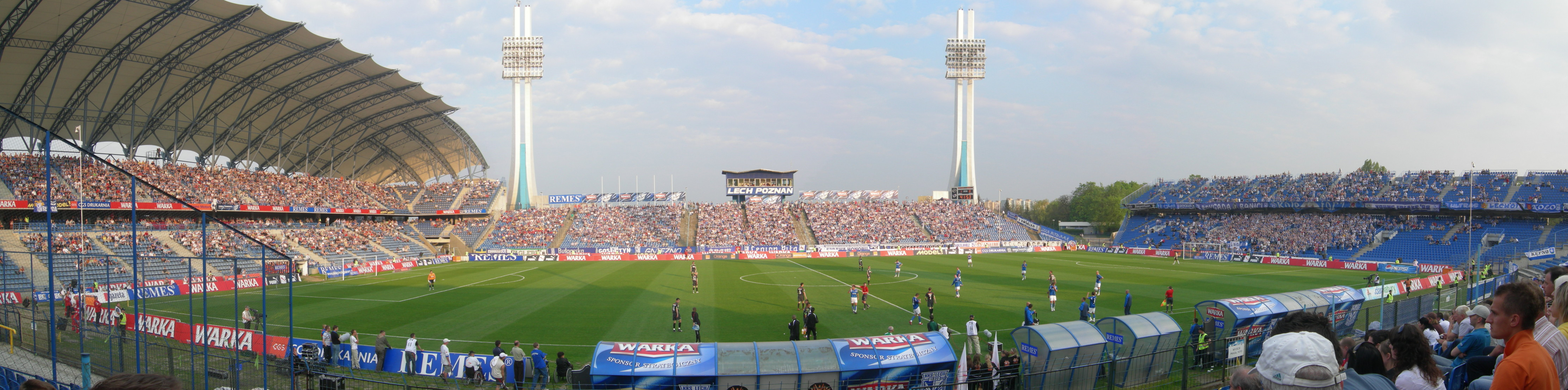 Stadium in Poznań during a football match